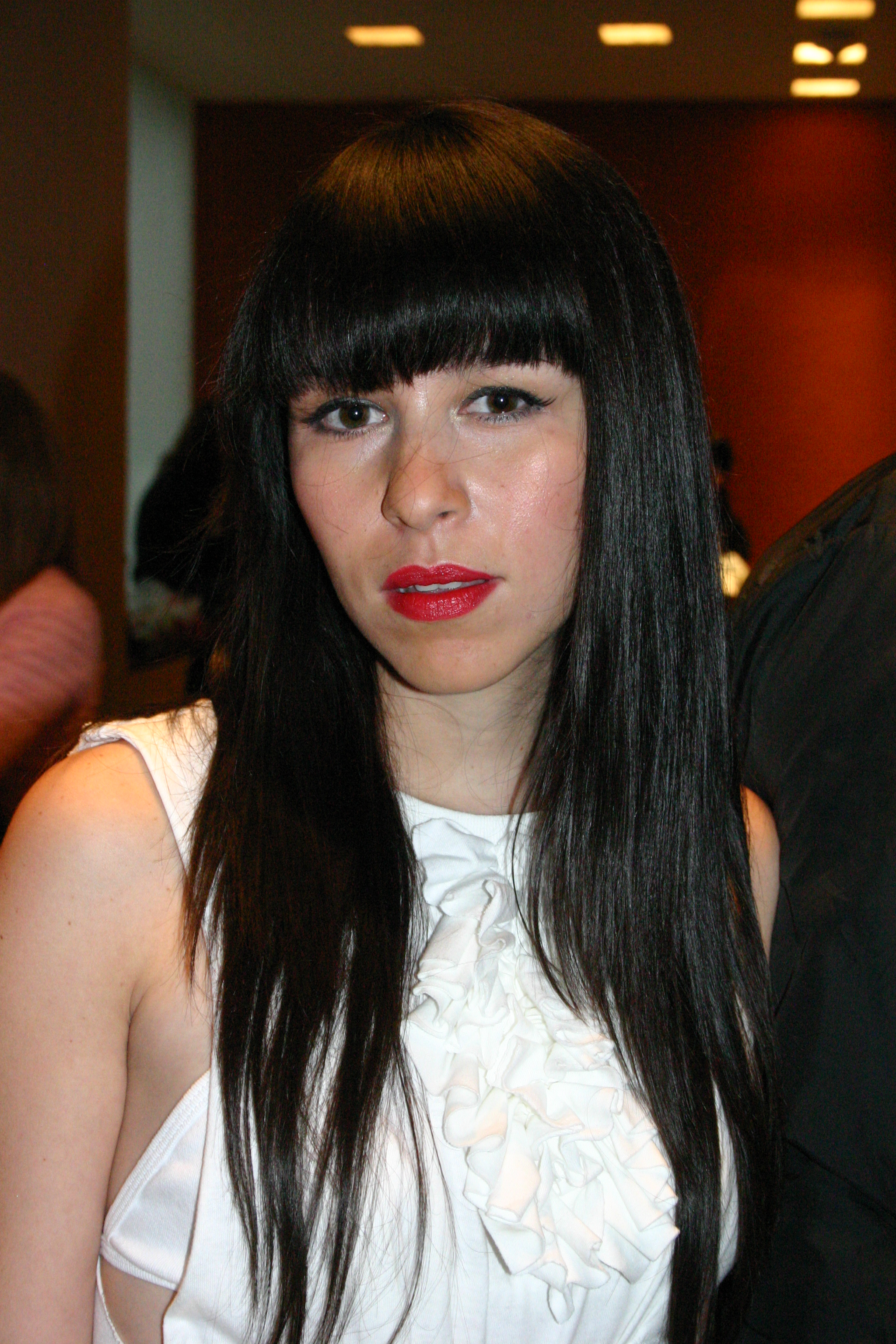 (se parece a la de los Yeah ! yeah ! yeah´s!)